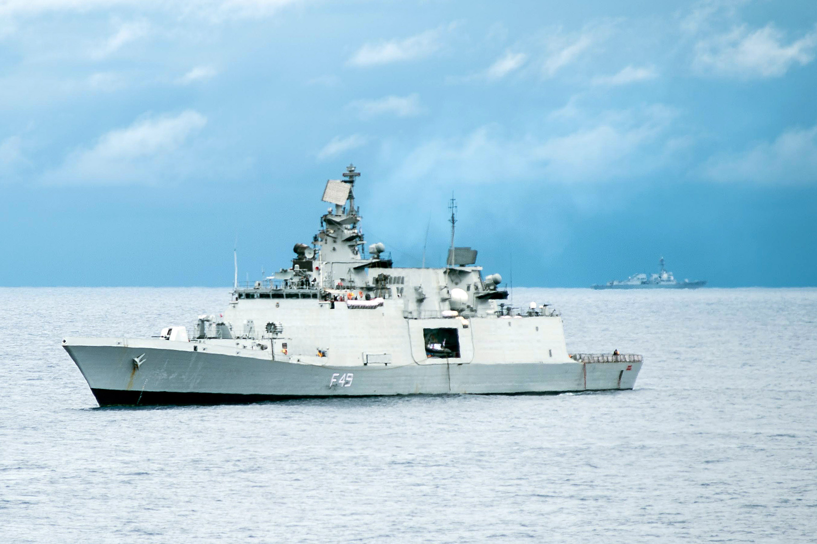 160615-N-EH218-065 PHILIPPINE SEA (June 15, 2016) – The Indian Navy Shivalik-class stealth multi-role frigate INS Sahyadri (F49) maneuvers along with the guided-missile destroyer USS Chung-Hoon (DDG 93) while conducting a search-and-rescue exercise during Exercise Malabar 2016. A trilateral maritime exercise, Malabar is designed to enhance dynamic cooperation between the Indian Navy, JMSDF and U.S. Navy forces in the Indo-Asia-Pacific.(U.S. Navy photo by Mass Communication Specialist 2nd Class Ryan J. Batchelder/Released)